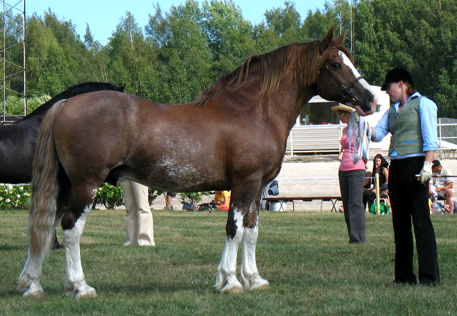 A 14-year-old Welsh Cob stallion at the Vermo Pony Show 2010, best Welsh Cob Stallion and Best Welsh Cob III.